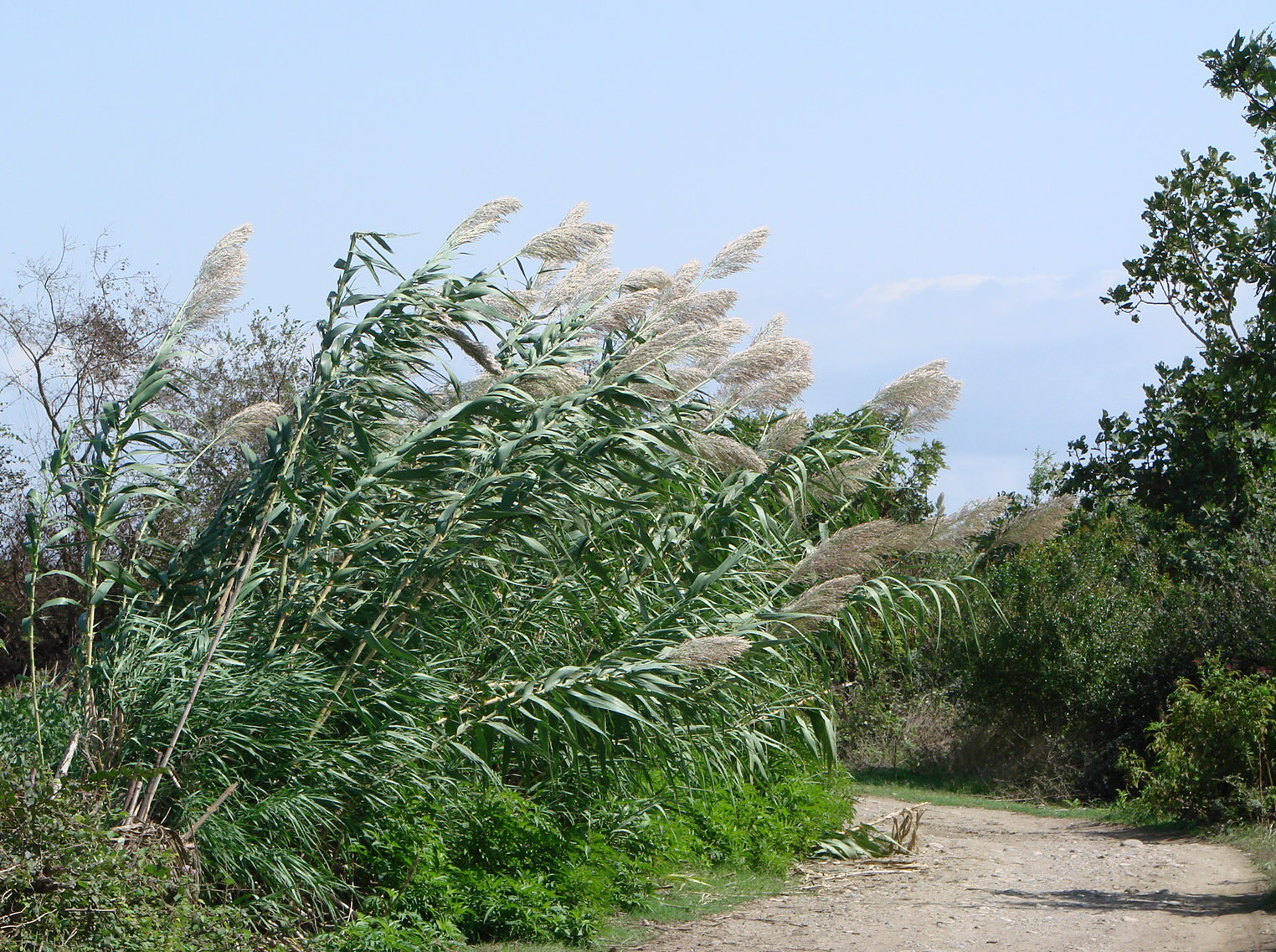 Arundo donax Juybar iran